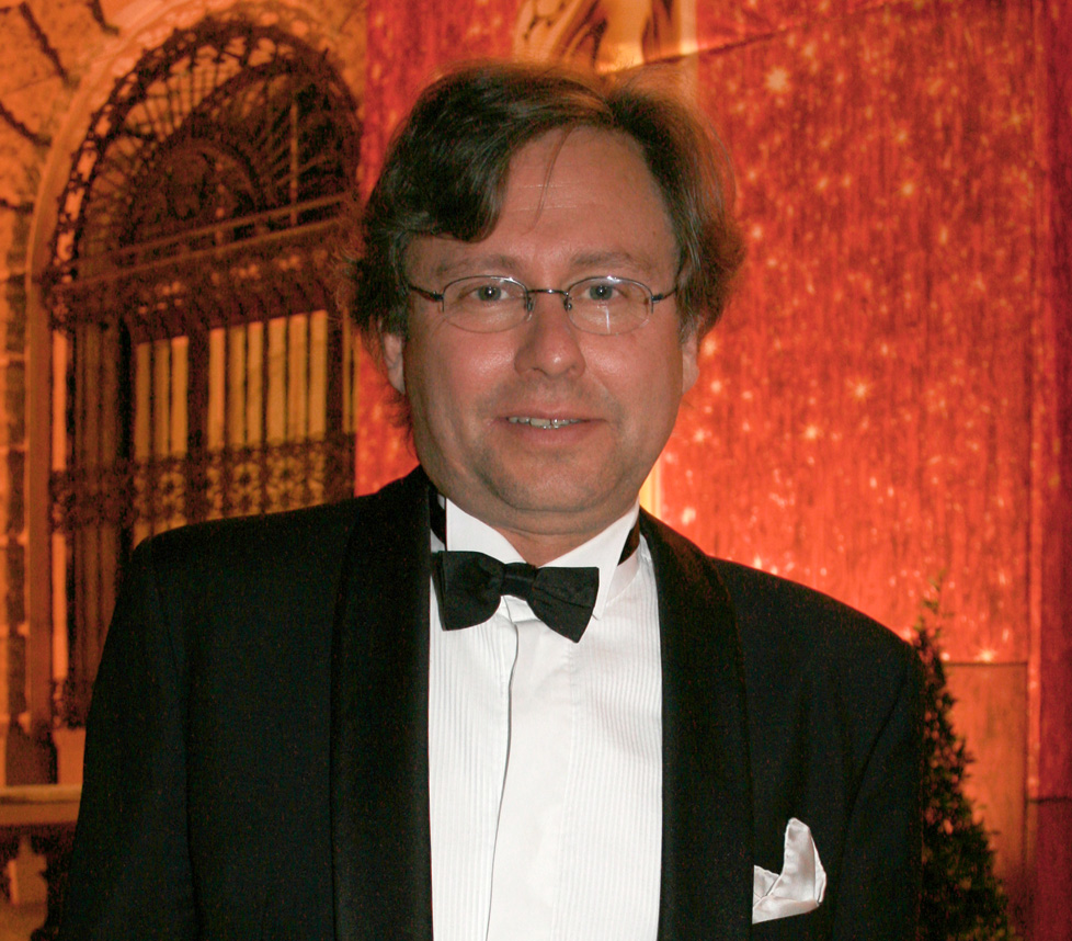 Alexander Wrabetz, general manager of the Austrian public service broadcaster ORF, at the Romy TV awards (Hofburg Imperial Palace in Vienna)